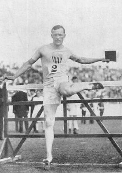 Forrest Smithson 2008 cropped from [1]